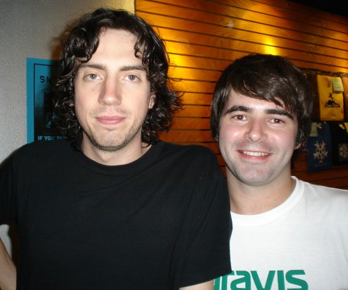 Gary Lightbody and Mark McClelland of Snow Patrol - Tempe, Arizona